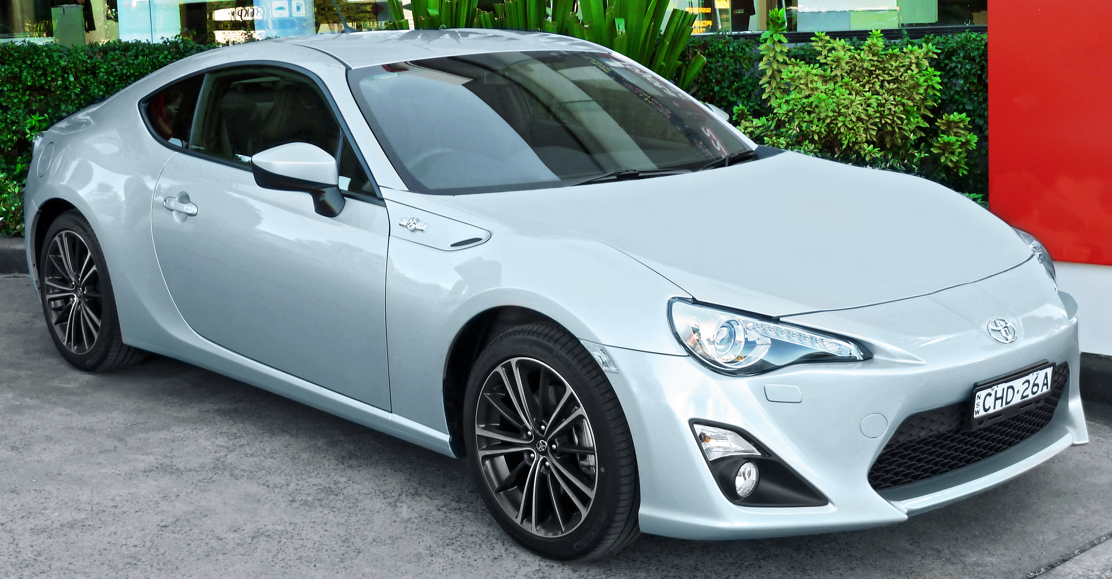 2012 Toyota 86 (ZN6) GTS coupe. Photographed at Stewart Toyota, Rockdale, New South Wales, Australia.